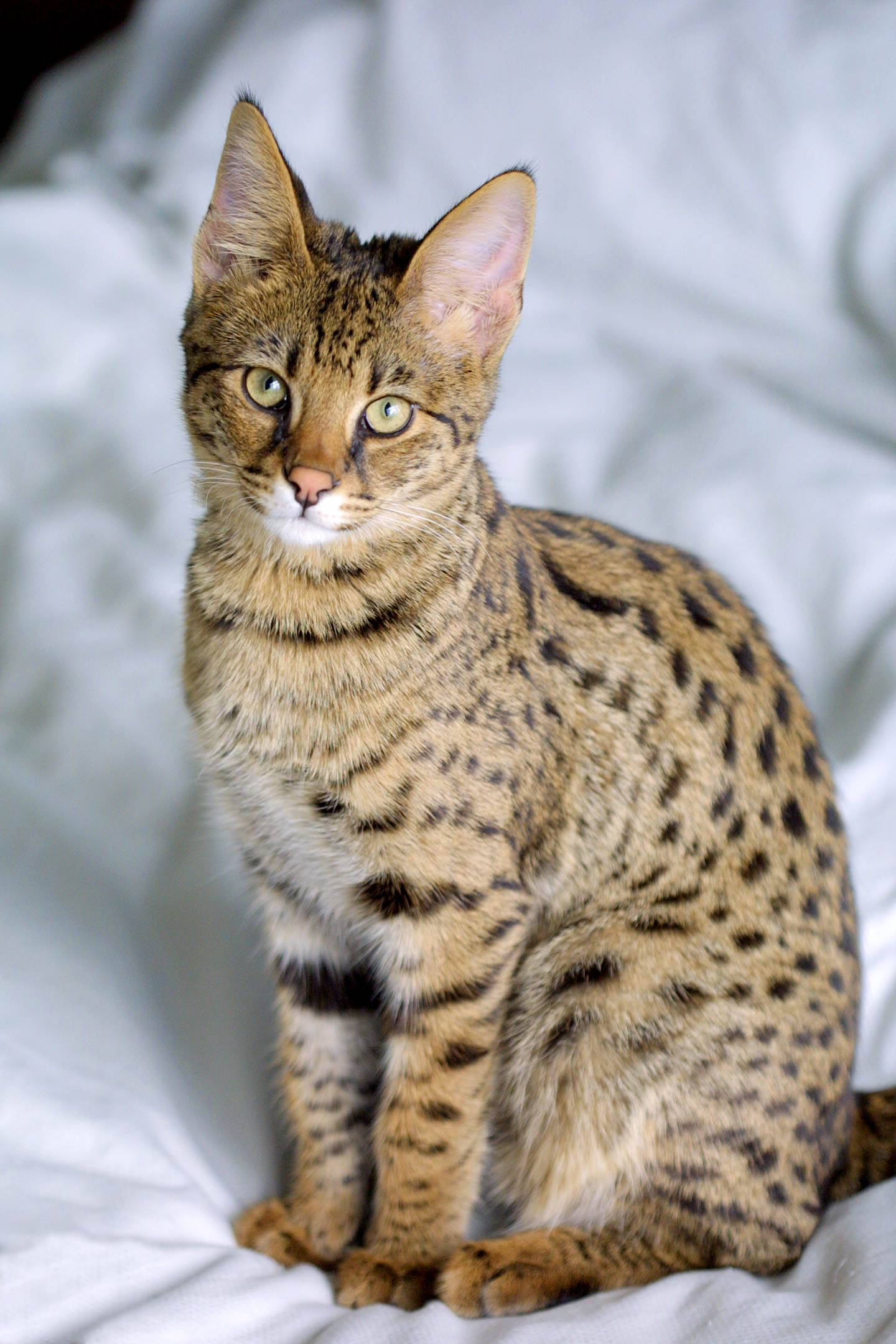 Full body portrait of a 4-month old F1 Savannah cat.